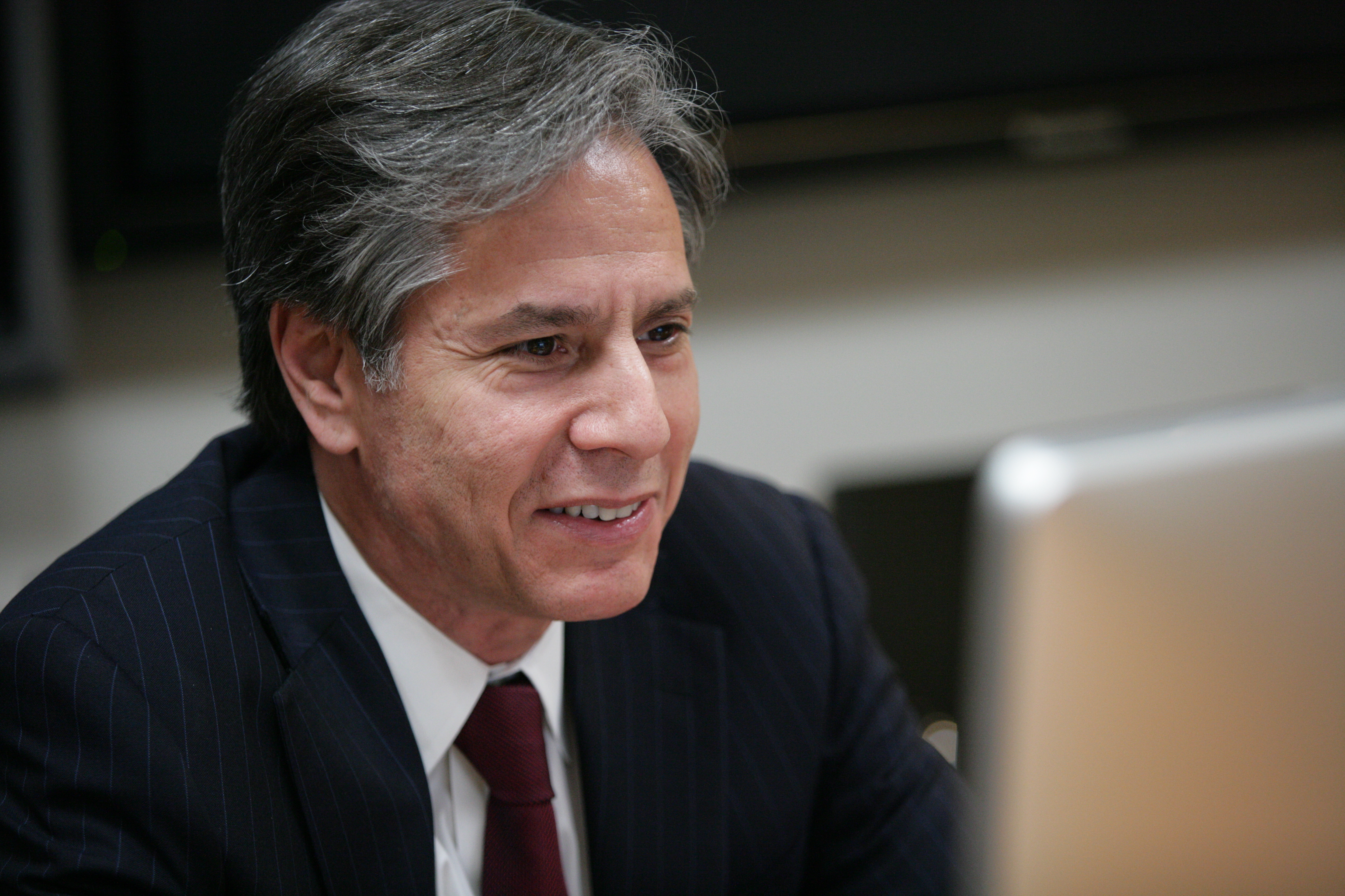 Deputy Secretary of State Antony Blinken participates in a Twitter Q&A as part of the White House's "Big Block of Cheese Day" following the President's State of the Union Address, at the U.S. Department of State in Washington, D.C. on January 13, 2016. [State Department Photo/Public Domain]